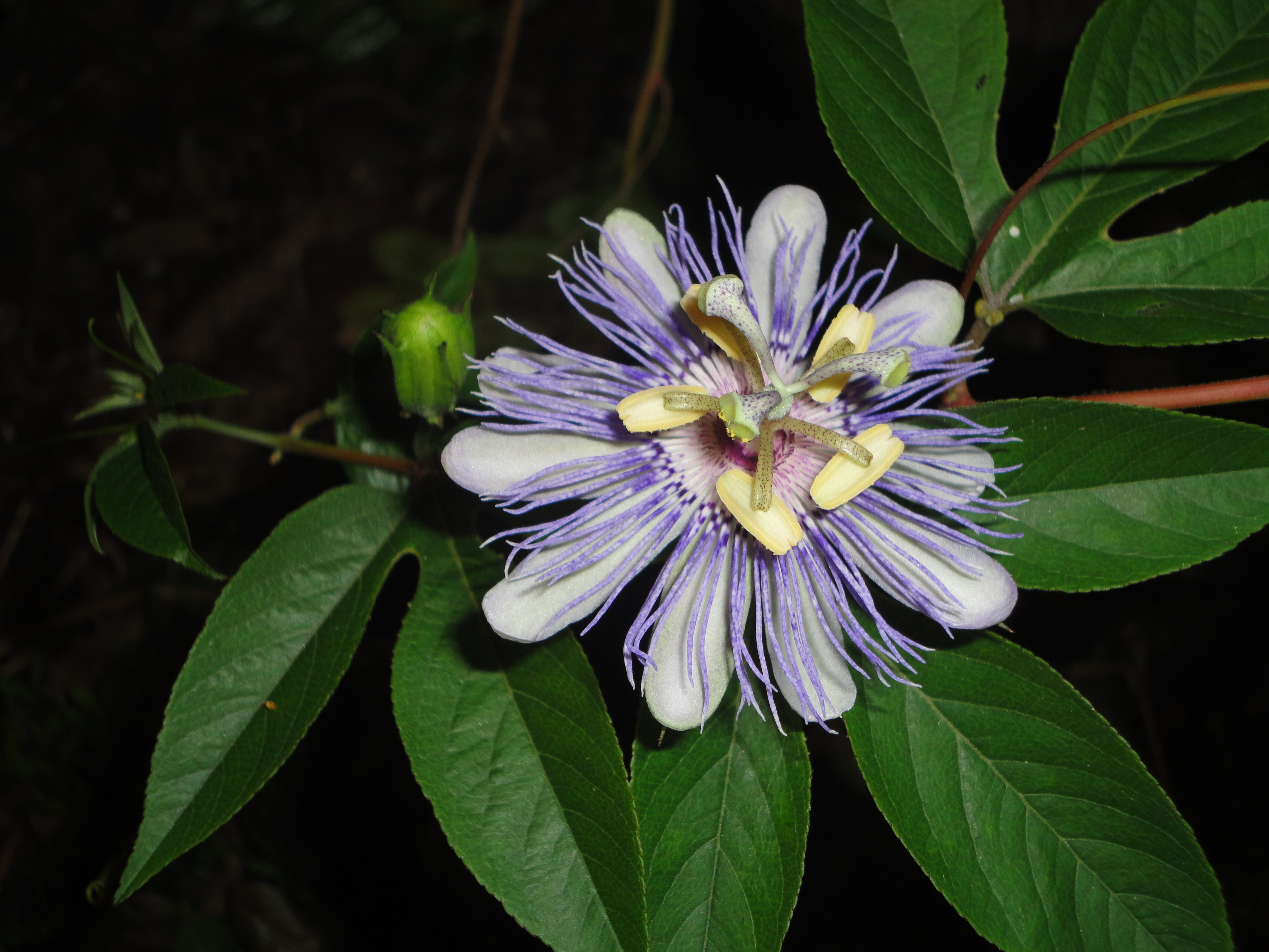 This is a Passiflora incarnata flower from Gainesville, FL, USA, taken in Fall 2011. Also note gulf fritillary (Agraulis vanillae) egg on leaf to the left